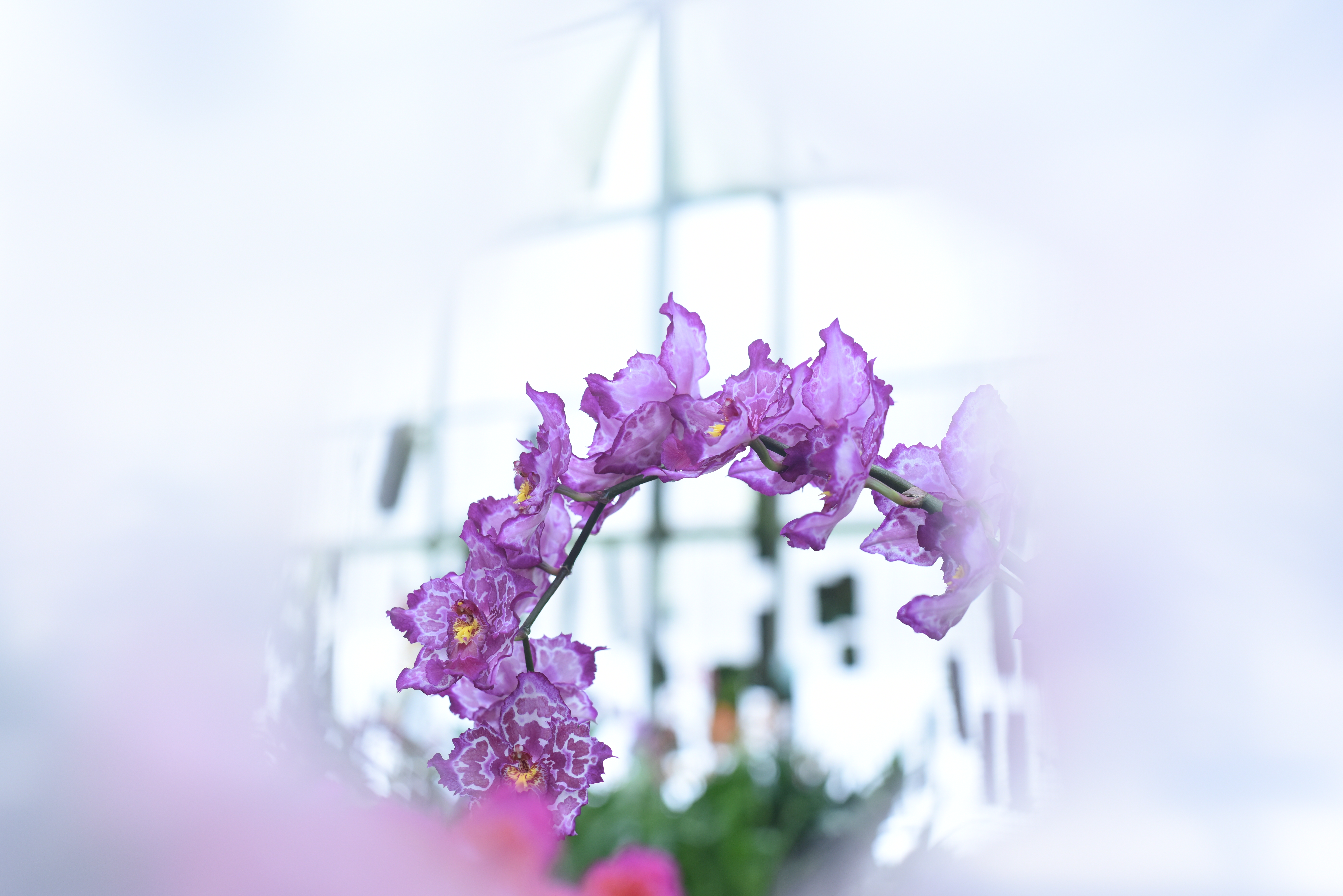 Orchid VI